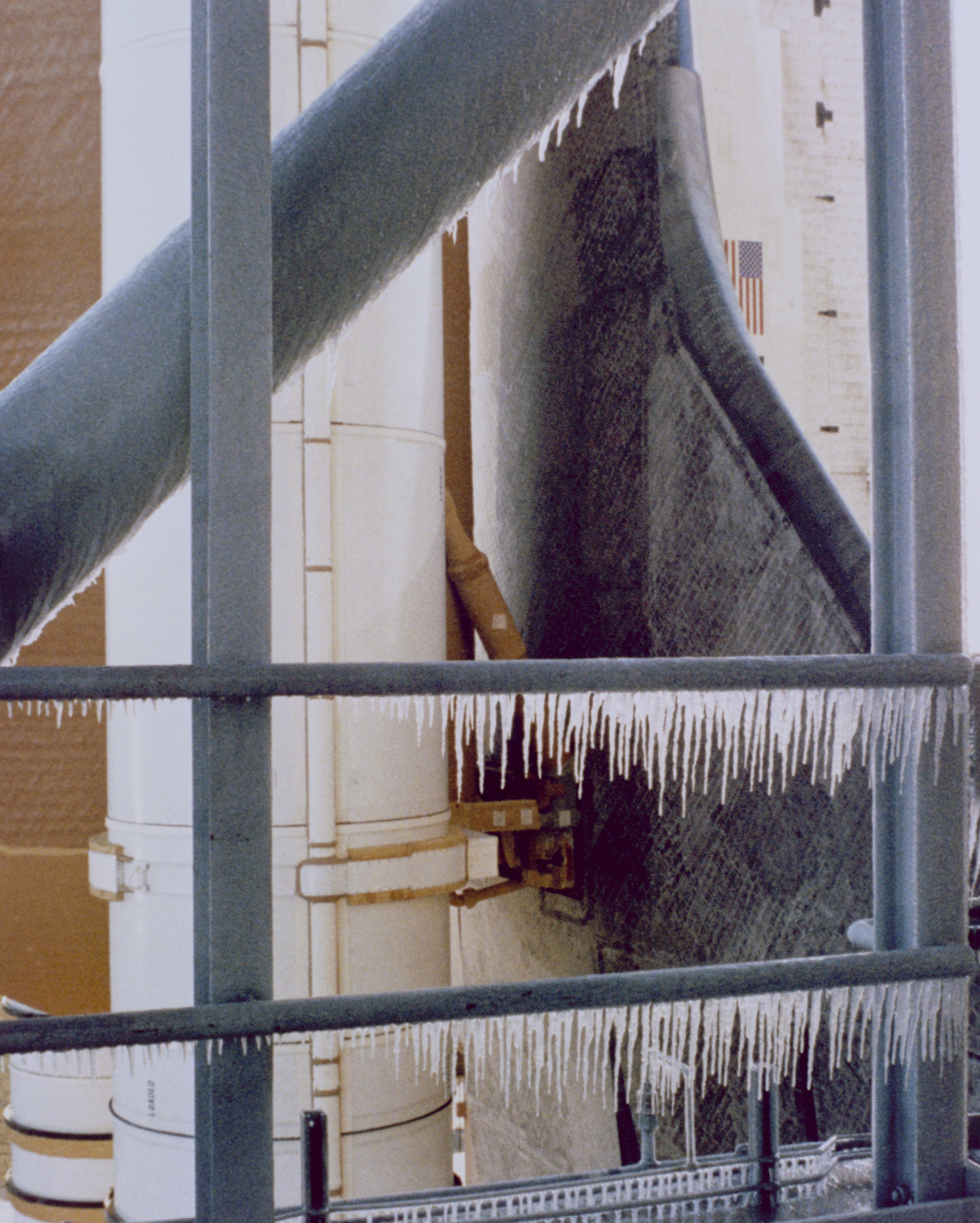 Icicles formed on the launch pad and service tower in the evening and early morning hours on January 28, 1986. When it was determined that air temperatures combined with wind speeds were going to cause freezing conditions, a decision was made to leave all water supply lines on slow "trickle" to prevent line burst. This action resulted in a surreal scene for the Florida launch facility.